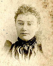 Urilla Sutherland was married to Wyatt Earp on January 24th. 1870 and was pregnant and about to deliver their first child when she died from typhoid fever later that year.